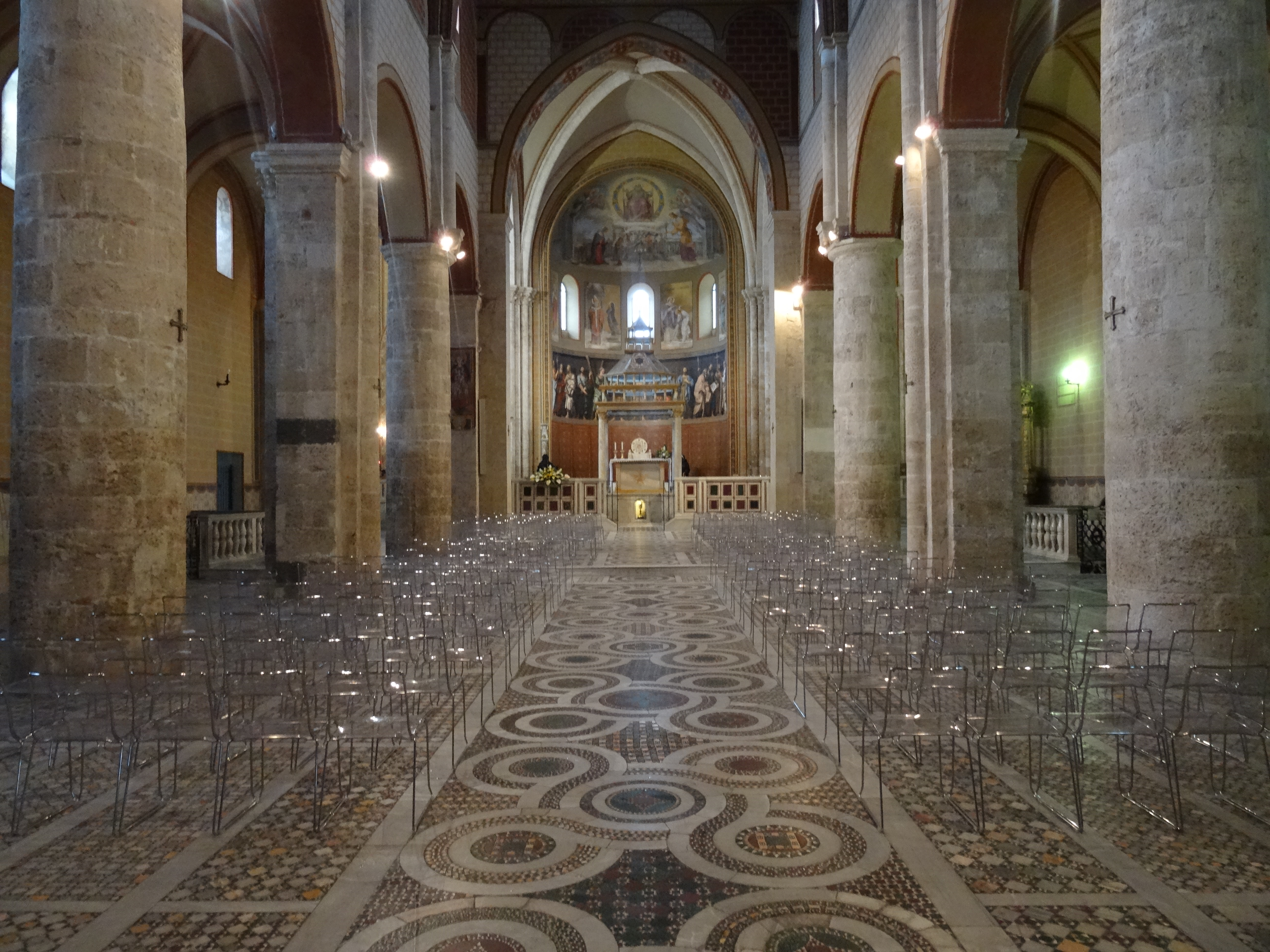 Cattedrale di Santa Maria (Anagni) interno